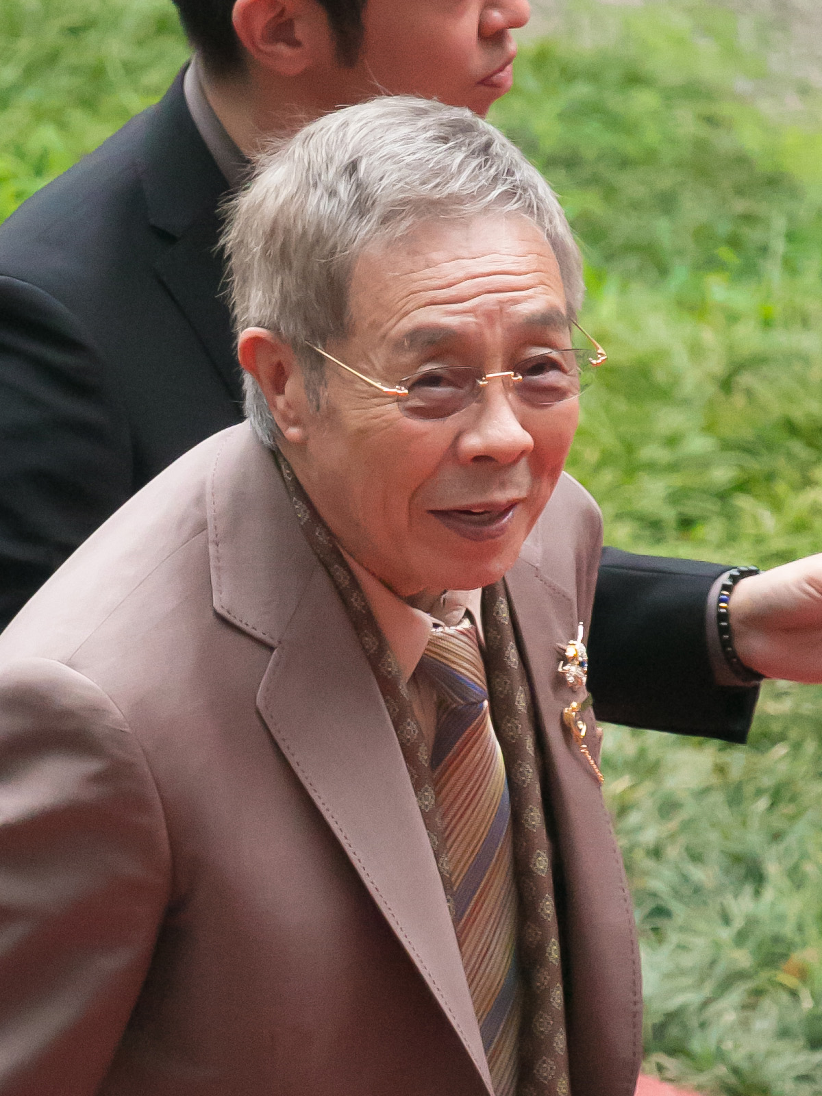 Saburō Kitajima in 58th Takarazuka Kinen.